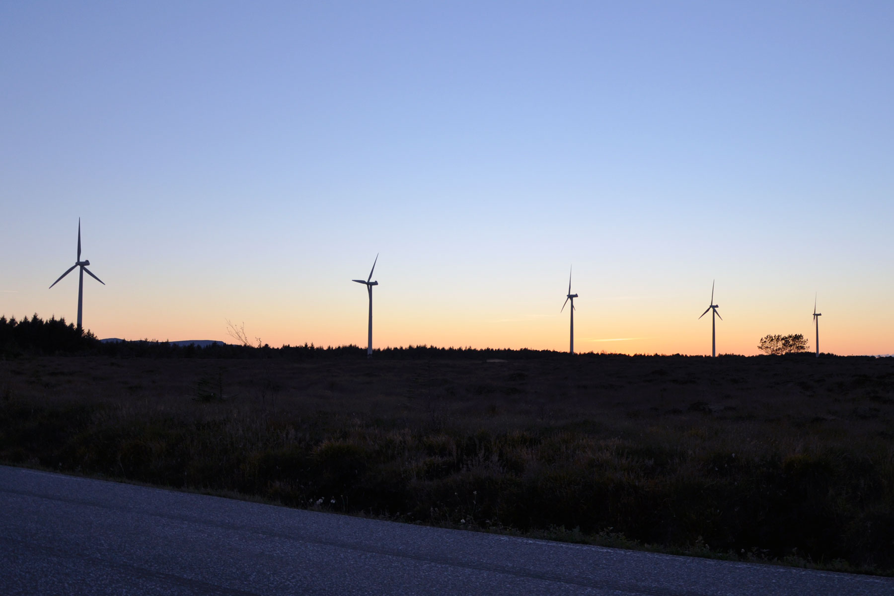 The image shows the 5 windturbines of Sandøy Vindkraft AS